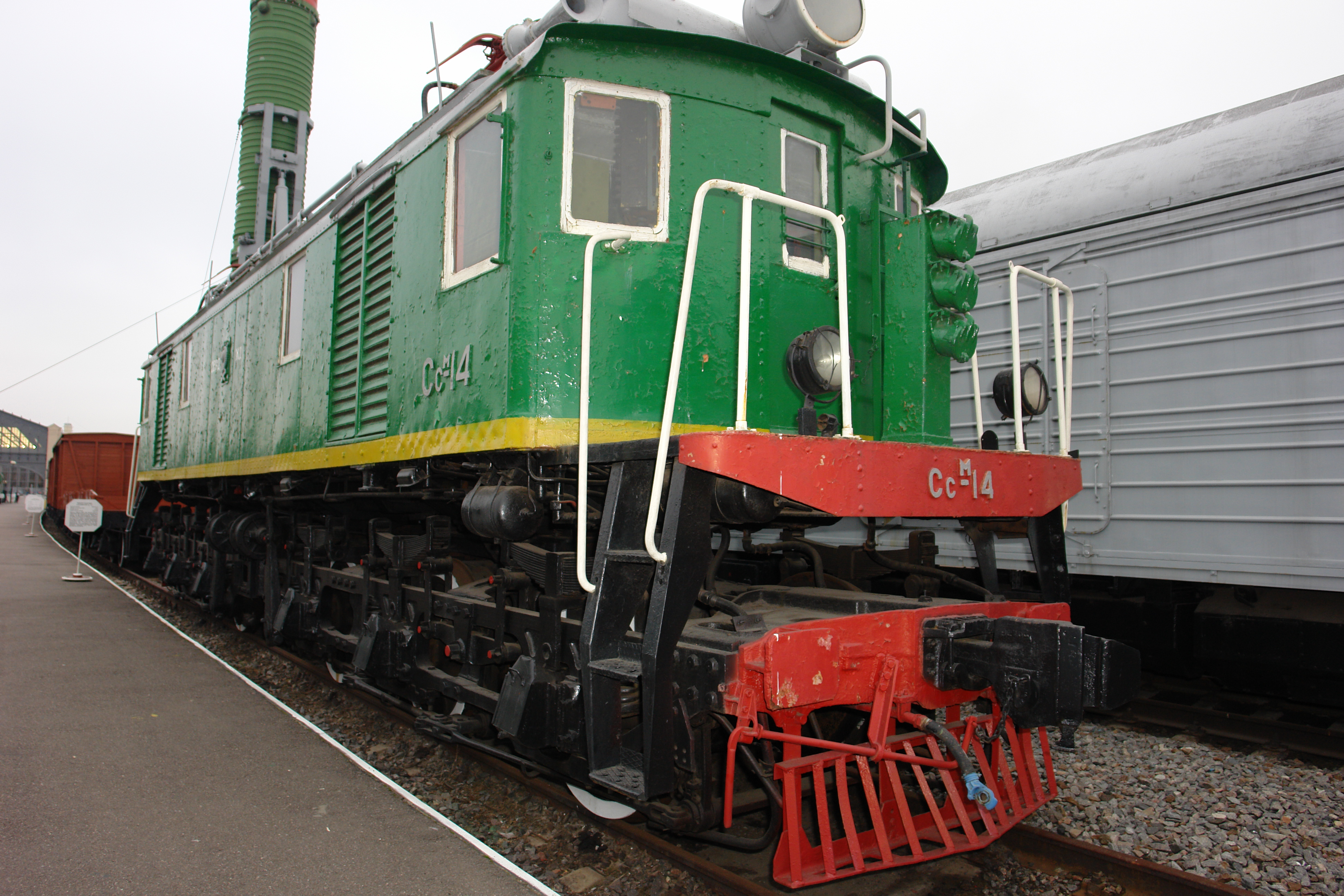 Freight electric locomotive SSM14 Current system3000 Vd.c.Weight in working order132t.Design speed70 kphPower (hourly rating)2040 kW Built in 1933. In 1932, the General Electric Company produced 8 electric locomotives of class S for the service on the Suram pass section of the Trans-Caucasus Railway in Georgia. The Kolomna and Dinamo works built 21 similar locomotives in 1932-34 as class Ss.